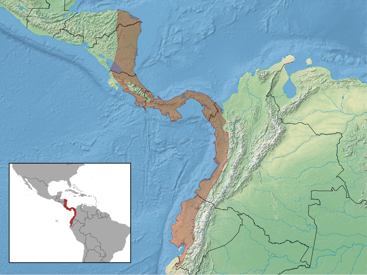 geographic distribution of Proechimys semispinosus